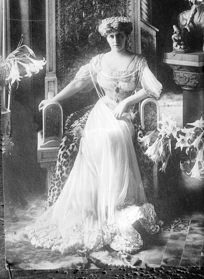 Queen Mary of Romania